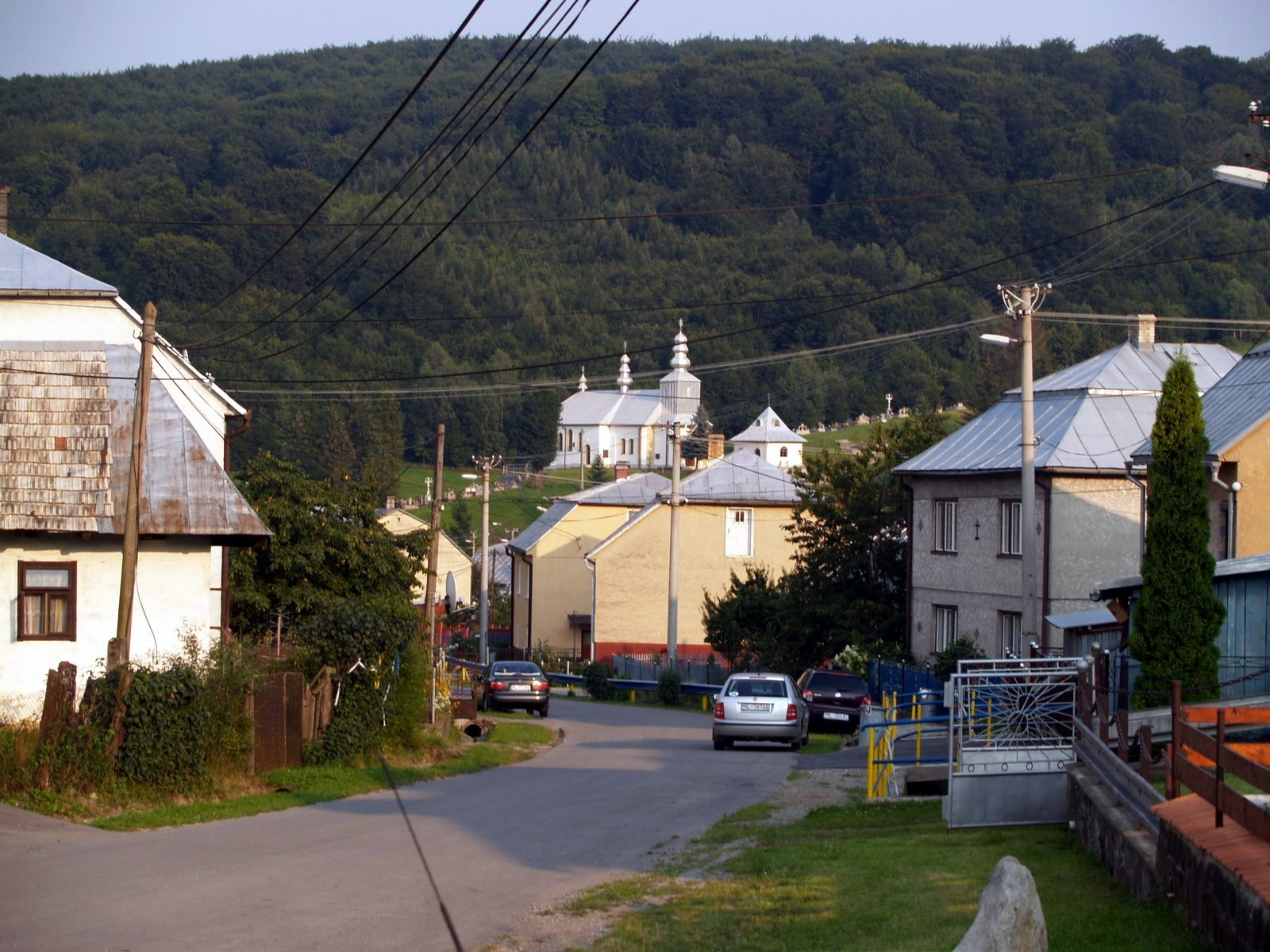 Pohled na obec a kostel